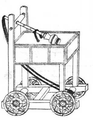 Illustration of a Hinged Counterweight Trebuchet Prepped for Transit from the Wujing Zongyao, late Ming (Wanli Period) edition. The photographs are part of my book. You're welcome to use them on Wikipedia so long as you list my book "Chinese Siege Warfare: Mechanical Artillery & Siege Weapons of Antiquity" by Liang Jieming (ISBN 981-05-5380-3) as the source. I hope that helps. Cheers, Leong Kit Meng (Liang Jieming)